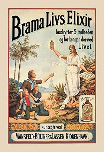 Danish medical advertising poster for Brama Life Elixir protect health and prolong life thereby only genuine by Mansfeld-Bullner & Lassen Kiobenhaven...